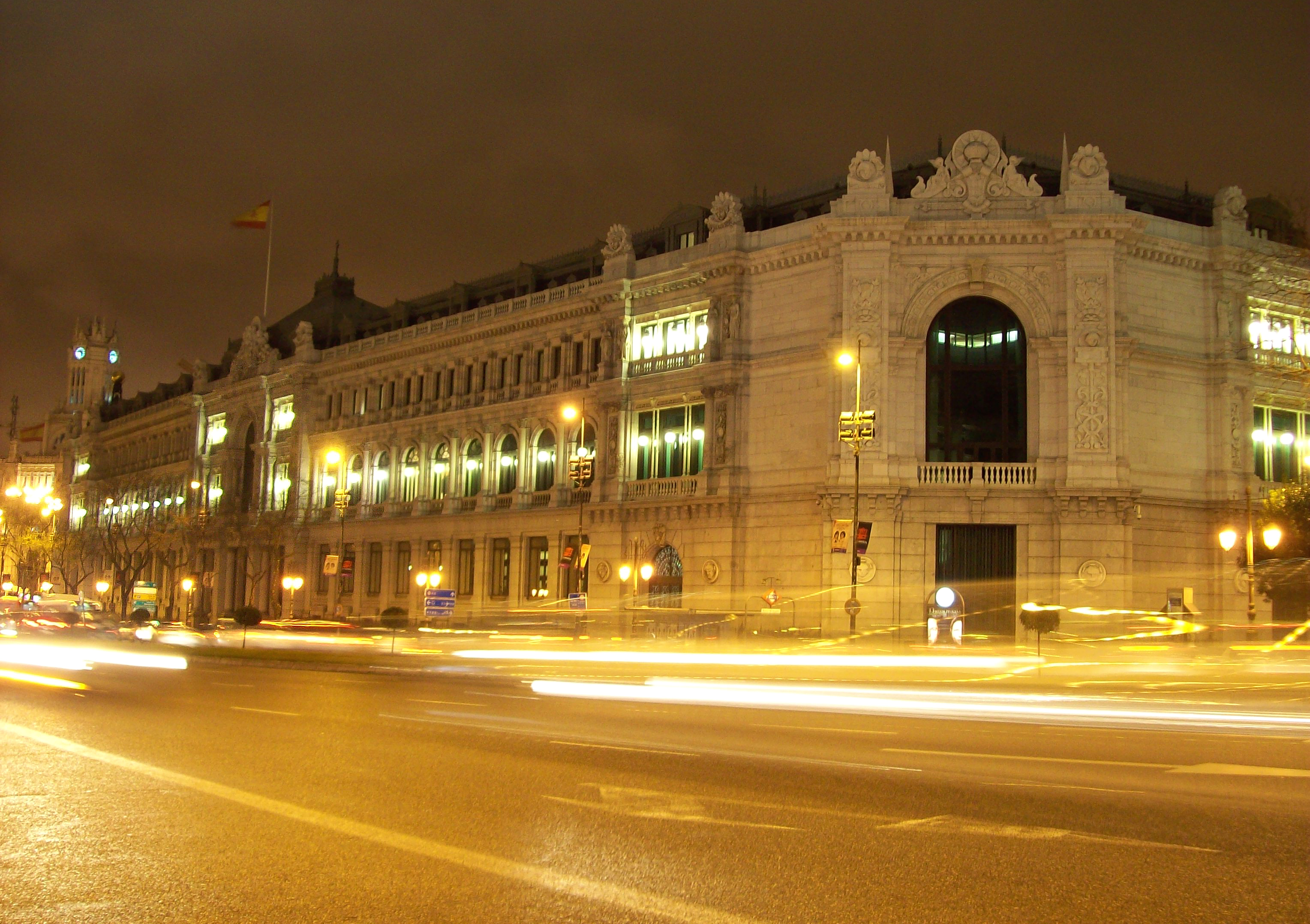 North façade (48 Calle de Alcalá, street) of the Bank of Spain headquarters (Madrid).